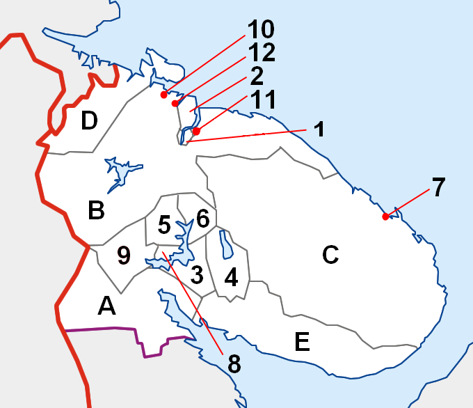 Murmansk Oblast numbered